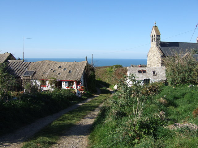 Llanwnda To the right, the church of St Gwyndaf, to the left, the cottage home of an environmental artist/activist. One with roots in the past, the other demonstrating ways of living in the future, side-by-side above the ever-present sea.